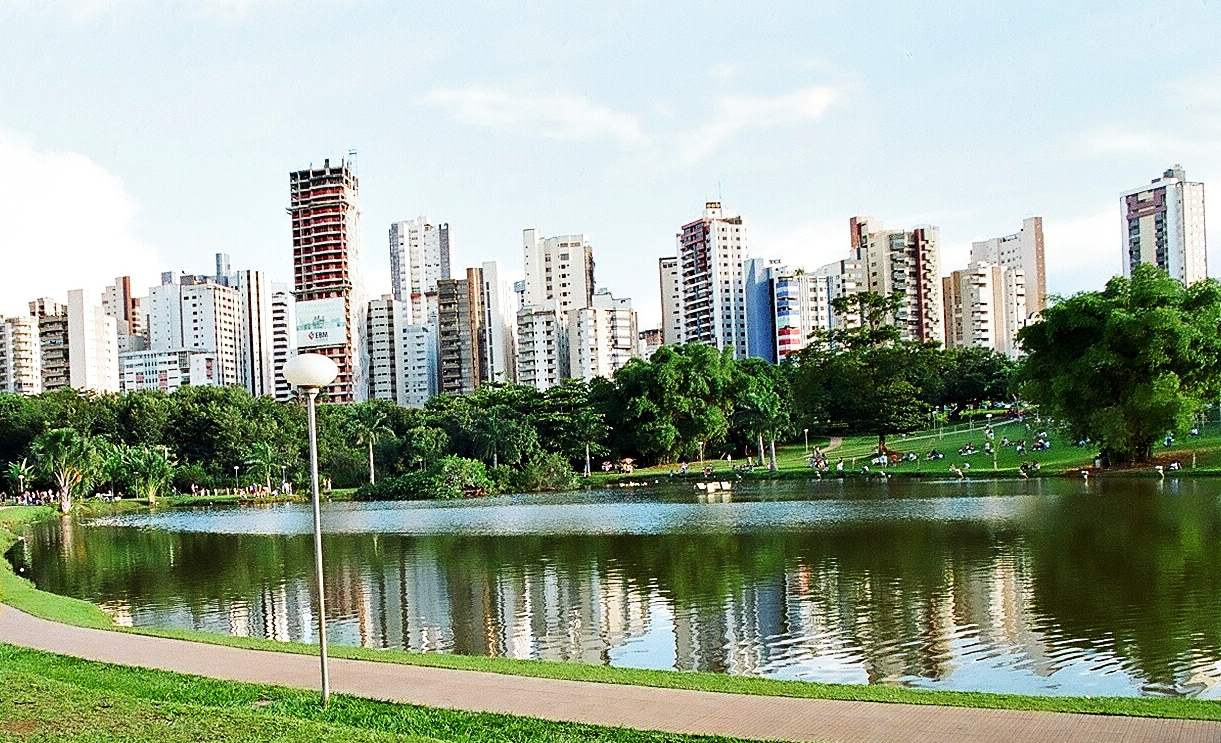 Vaca Brava Park - Goiania - State of Goias - Brazil